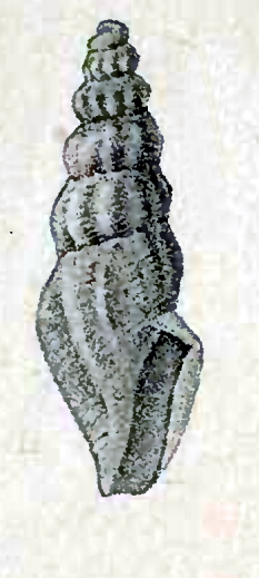 Kurtziella cerina (Kurtz & Stimpson, 1851); family Mangeliidae